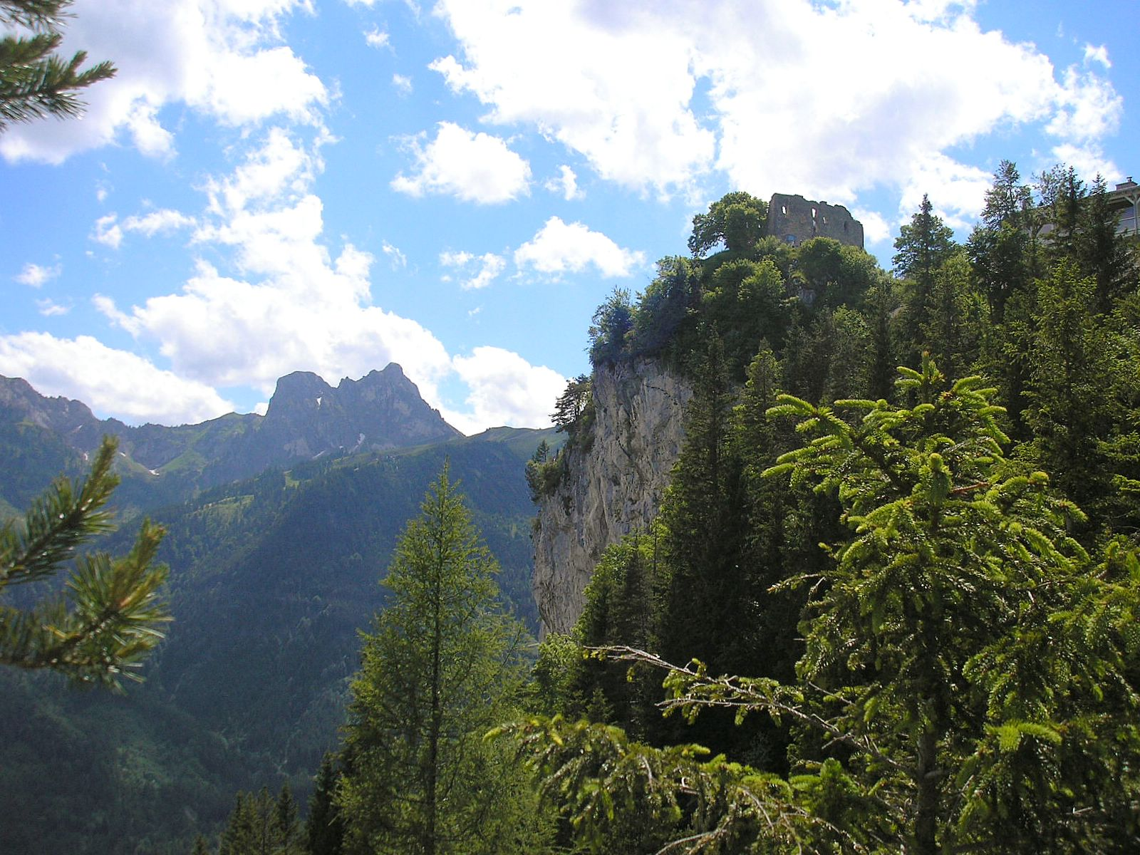 Falkenstein castle near Pfronten (Landkreis Ostallgäu, Bavaria, Germany). The Falkenstein, seen from north east